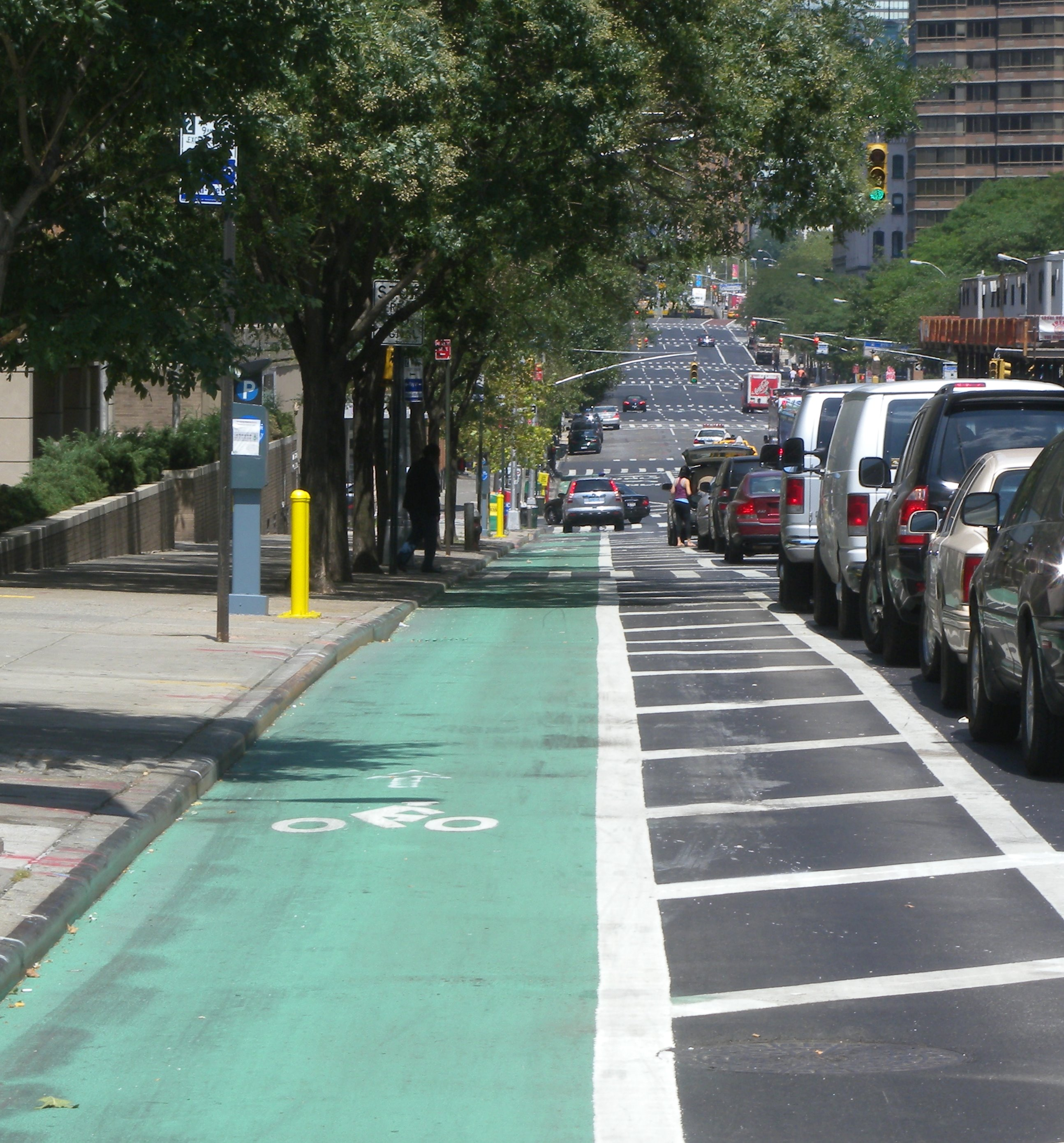 Looking north past the non existent 31st Street, along First Avenue bike lane protected by parked cars on a sunny midday.